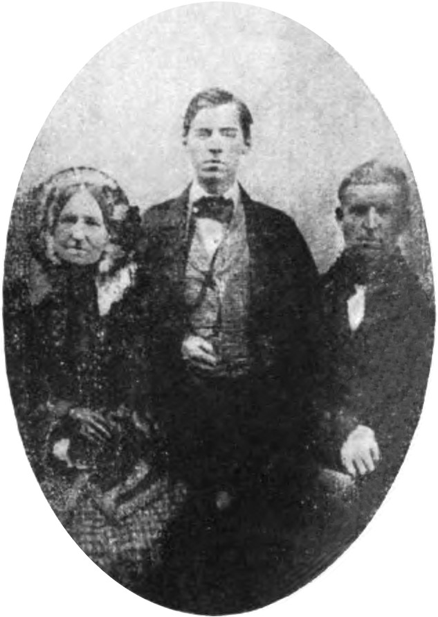 Senator William E. Chandler (December 28, 1835 – November 30, 1917) of New Hampshire a teenager with his parents